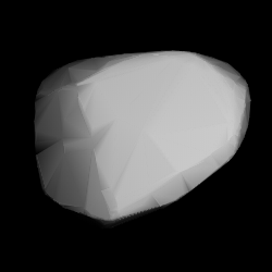 3D convex shape model of 1125 China, computed using light curve inversion techniques. J. Hanuš, J. Ďurech, M. Brož, B. D. Warner (June 2011). "A study of asteroid pole-latitude distribution based on an extended set of shape models derived by the lightcurve inversion method". Astronomy and Astrophysics 530: A134. ISSN 0004-6361. arXiv